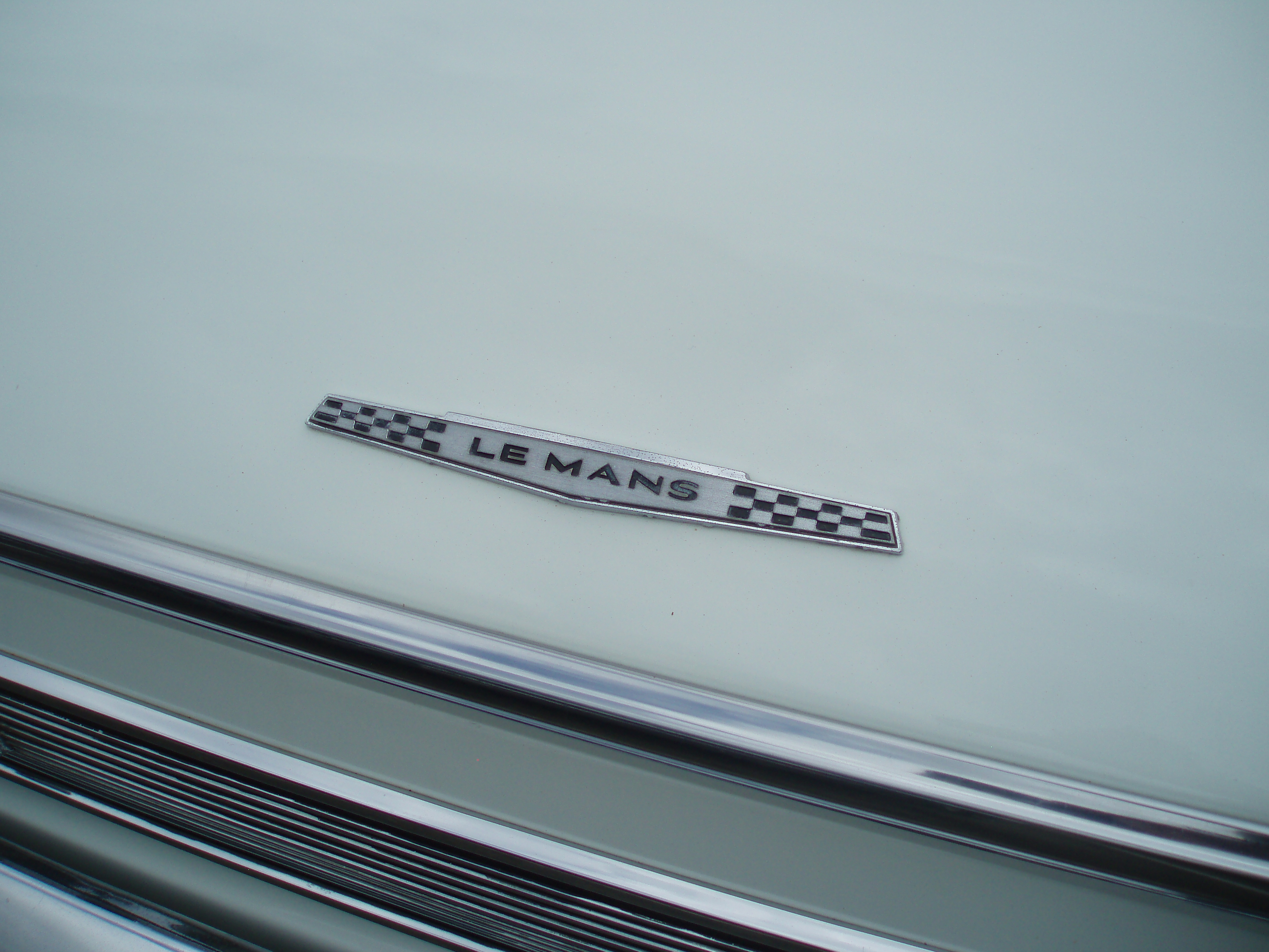 1966 Pontiac Tempest Le Mans coupe boot lid badge. Taken at the 2011 New South Wales All American Day, held at Castle Towers Shopping Centre, Castle Hill, Sydney.